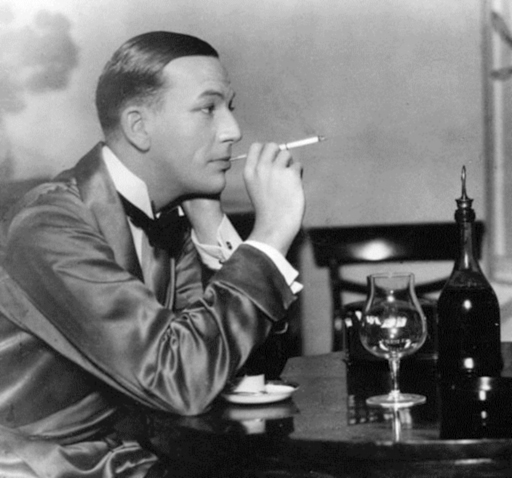 Promotional photograph of Noel Coward in the Broadway production of Private Lives